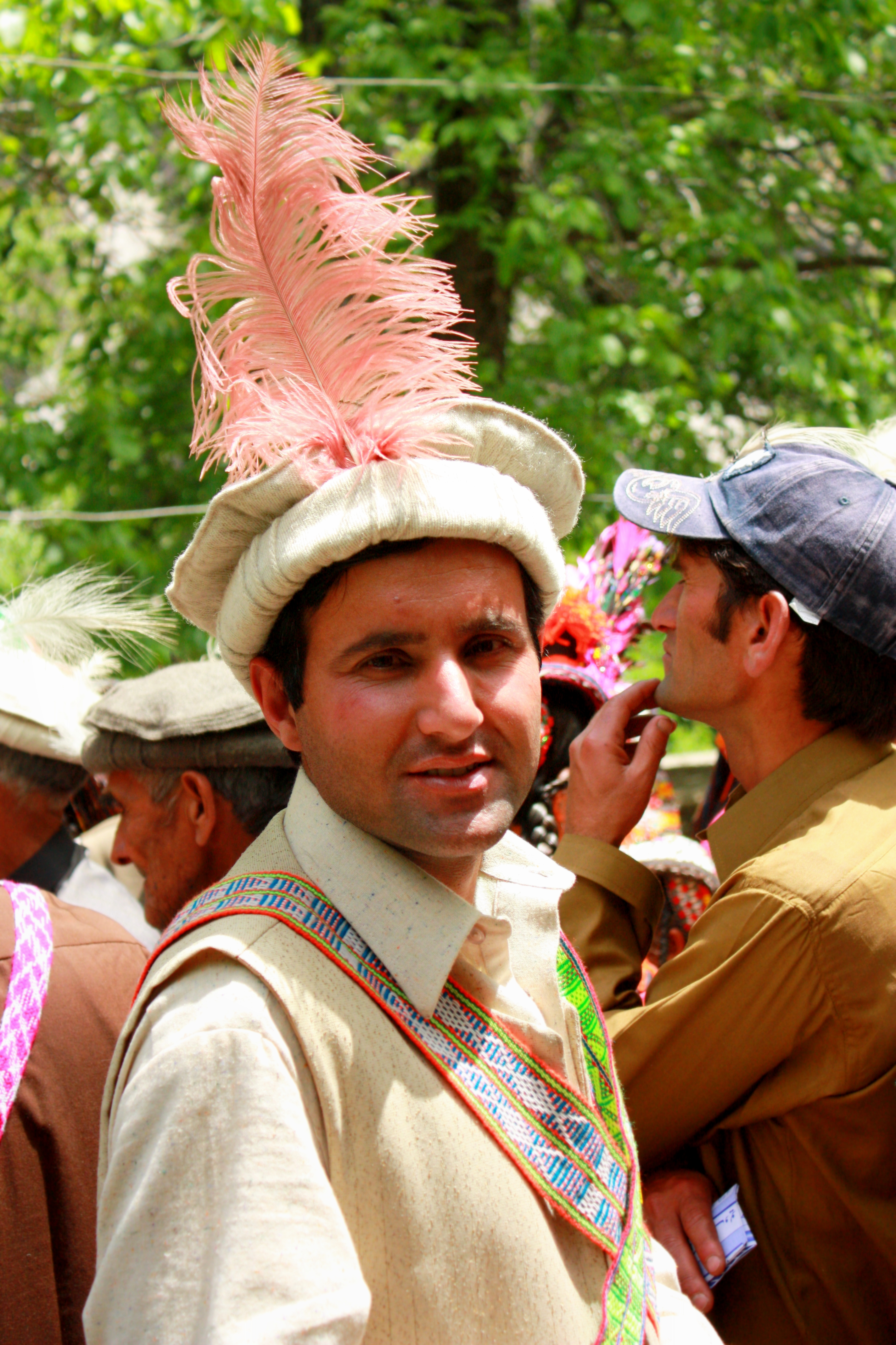 Kalash man sporting a long pink plume in his Chitral topi, an accessory that sets Kalash men apart from the local Muslim men